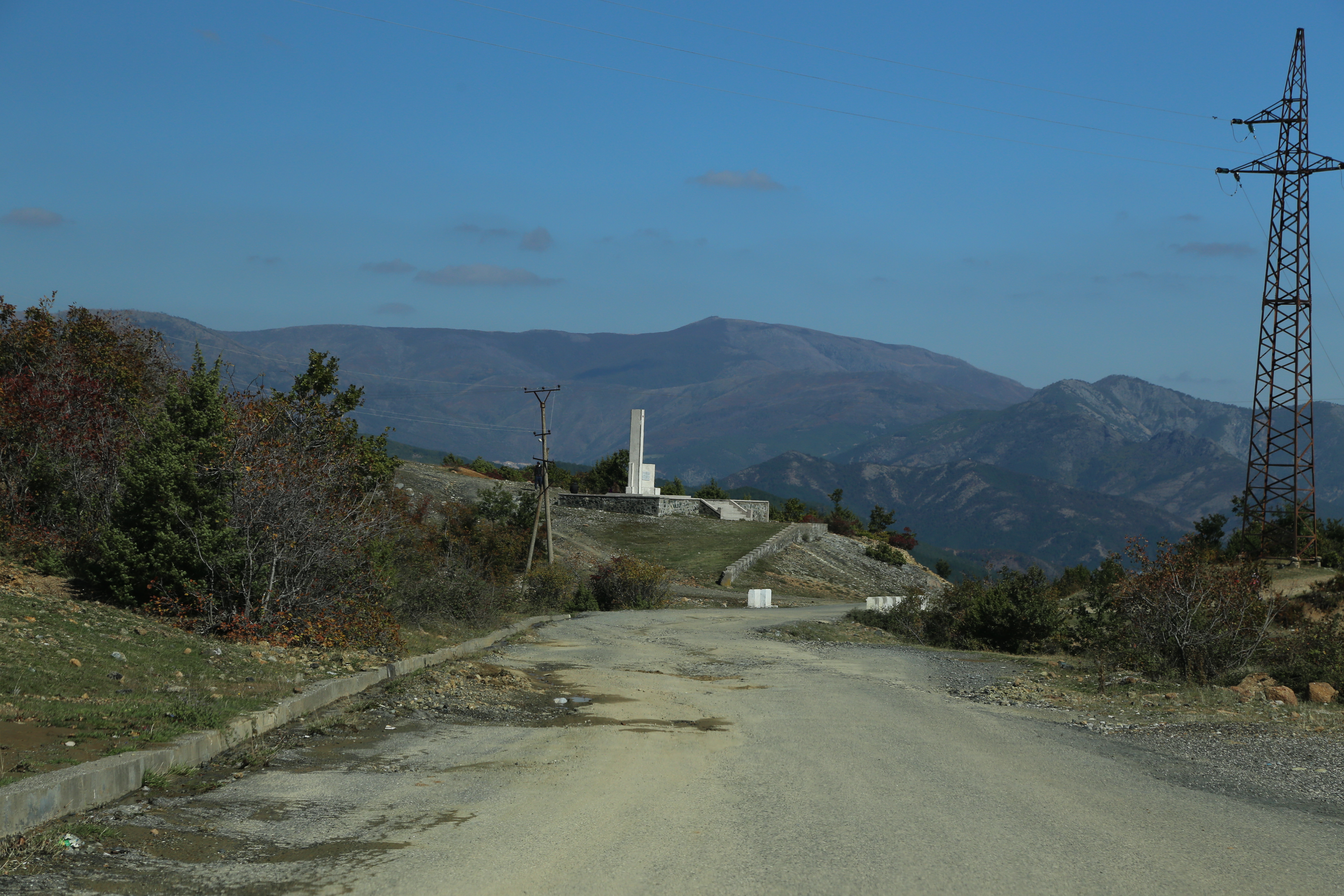 Rruga SH5 in Albania